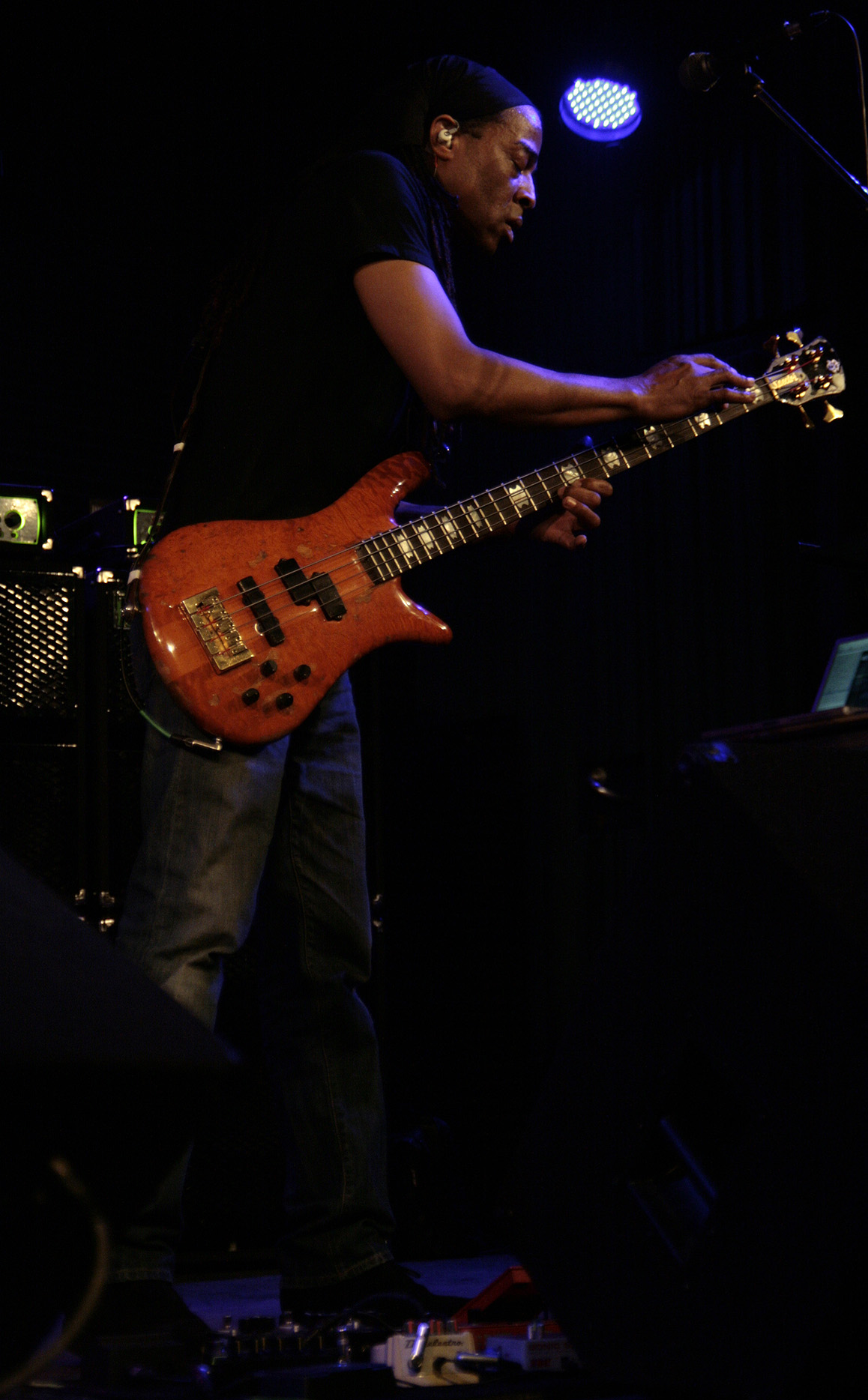 Doug Wimbish; Little Axe concert at the Reigen in Vienna